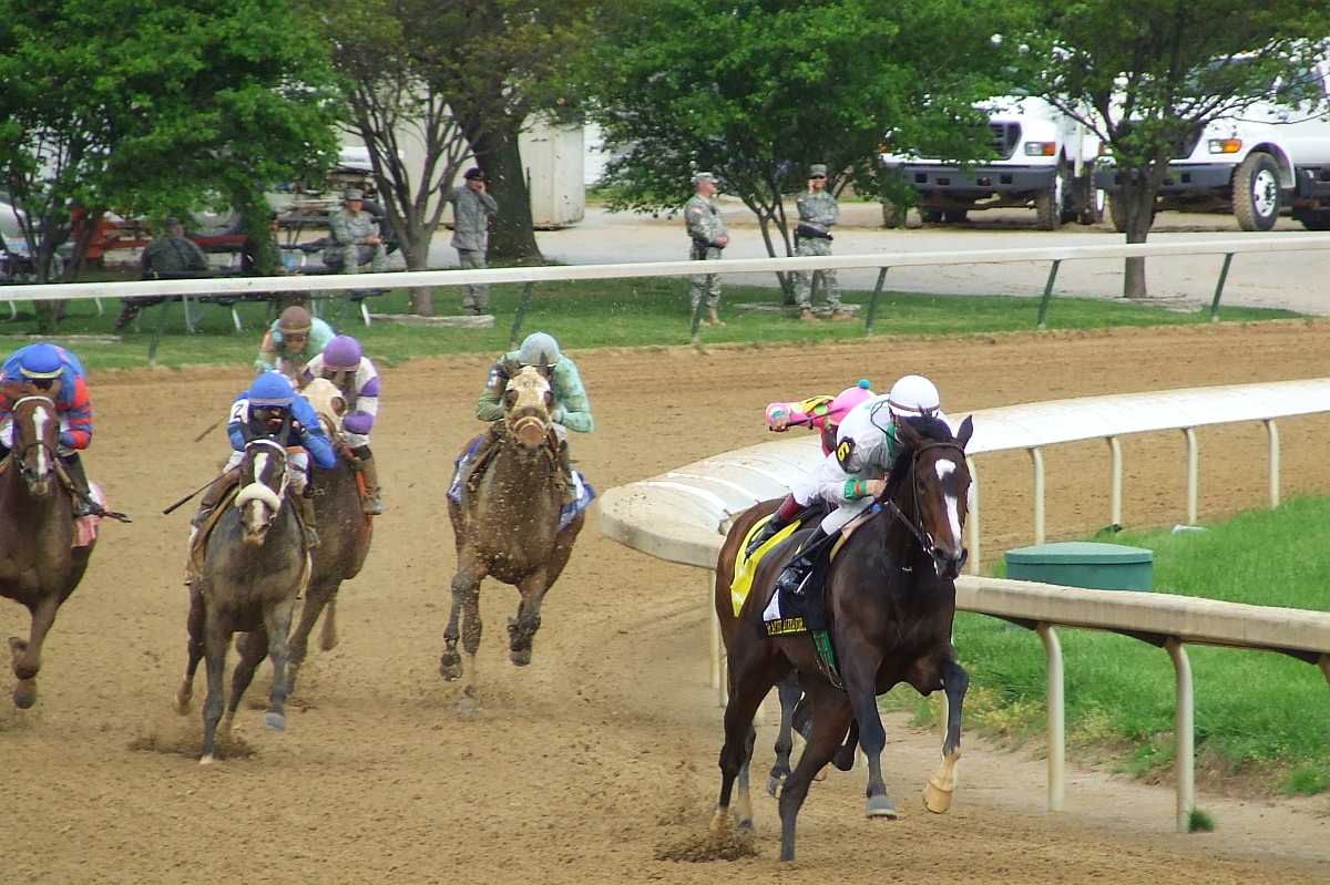 Rachel Alexandra on her way to winning the 135th Kentucky Oaks. Churchill Downs, Louisville, Kentucky, May 1, 2009.